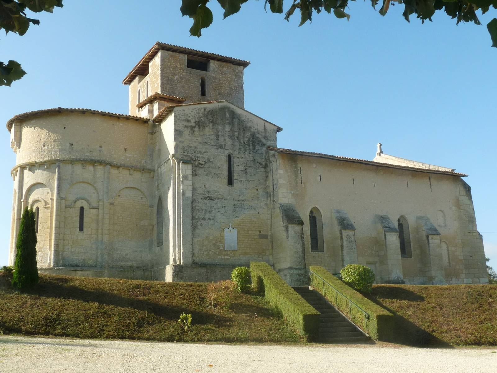 church